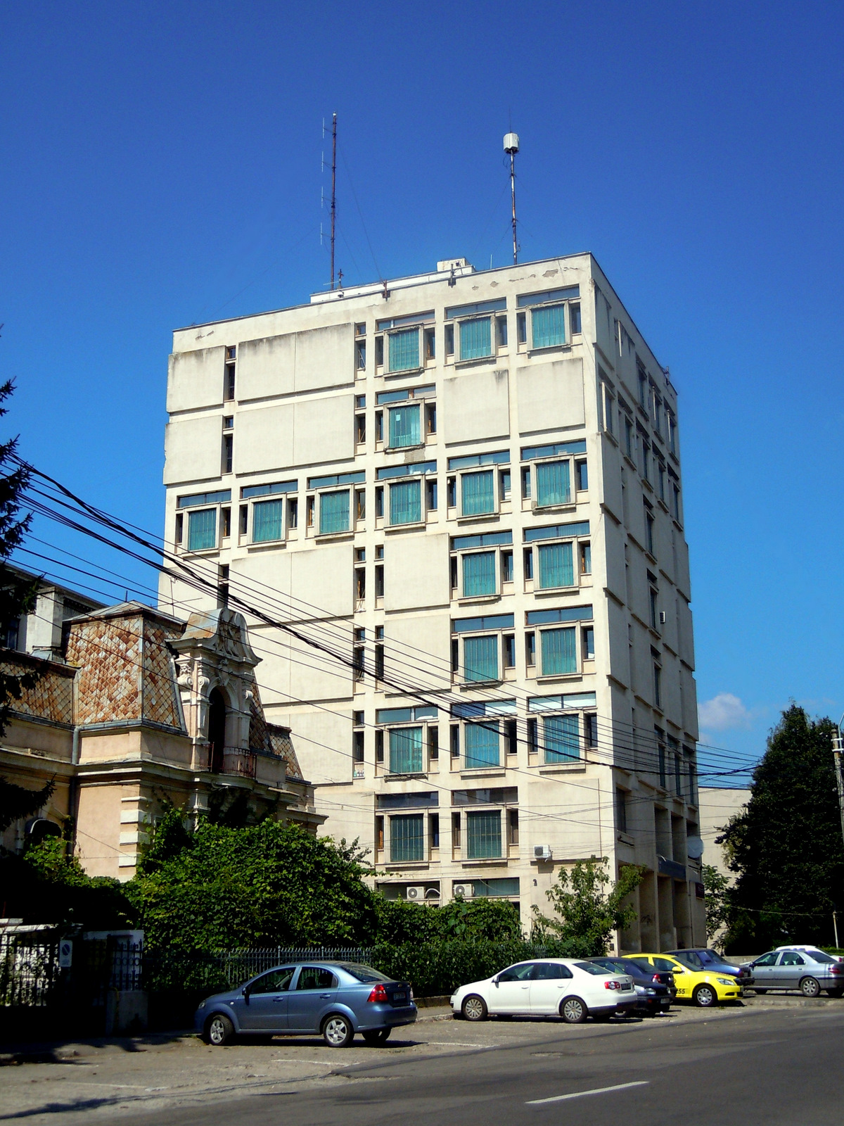 Alexandru Ioan Cuza University , Building C , Faculty of Informatics of Iasi , Iaşi , Romania